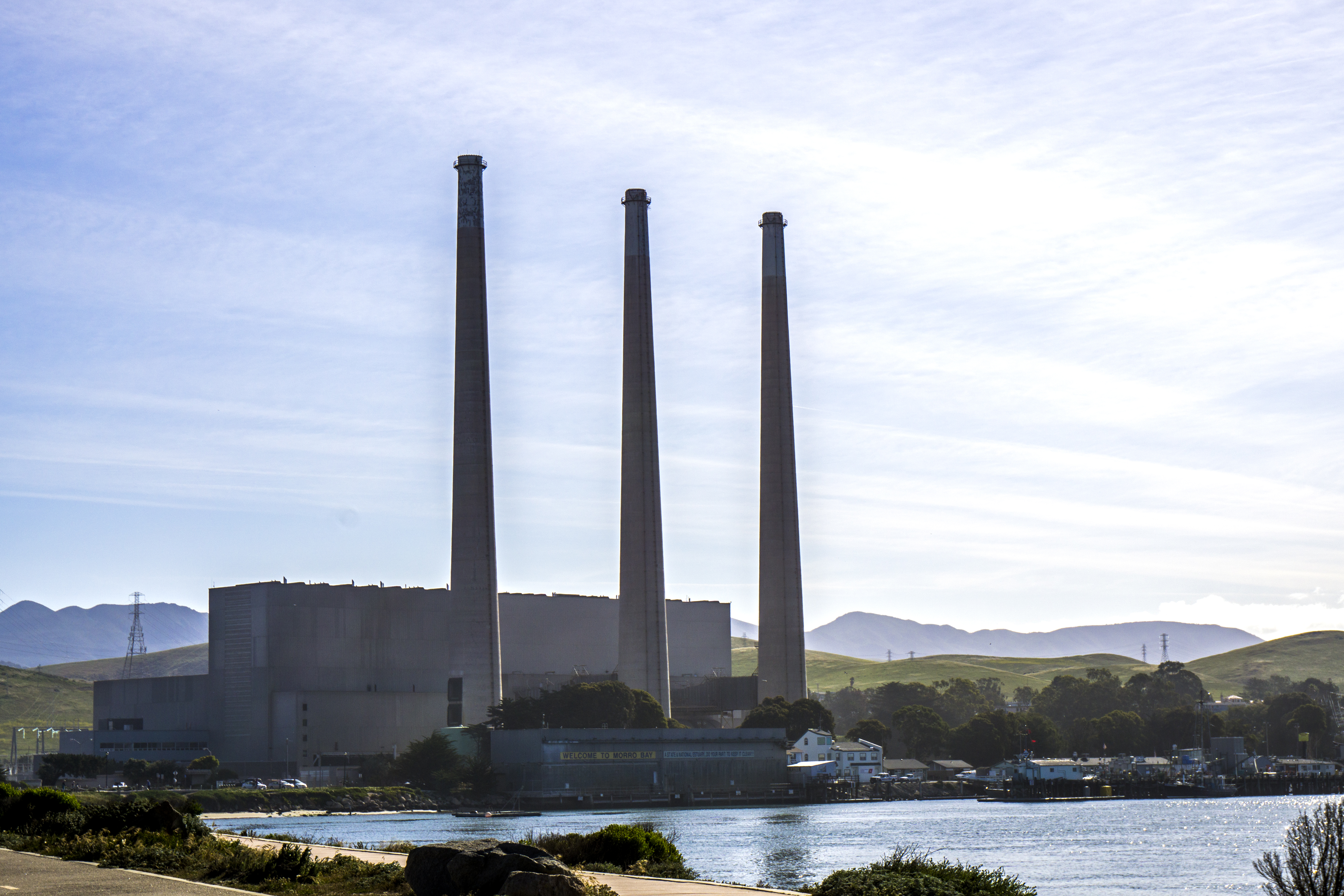 A view of the power generating facility at Morro Bay, California photographed April 15, 2016.